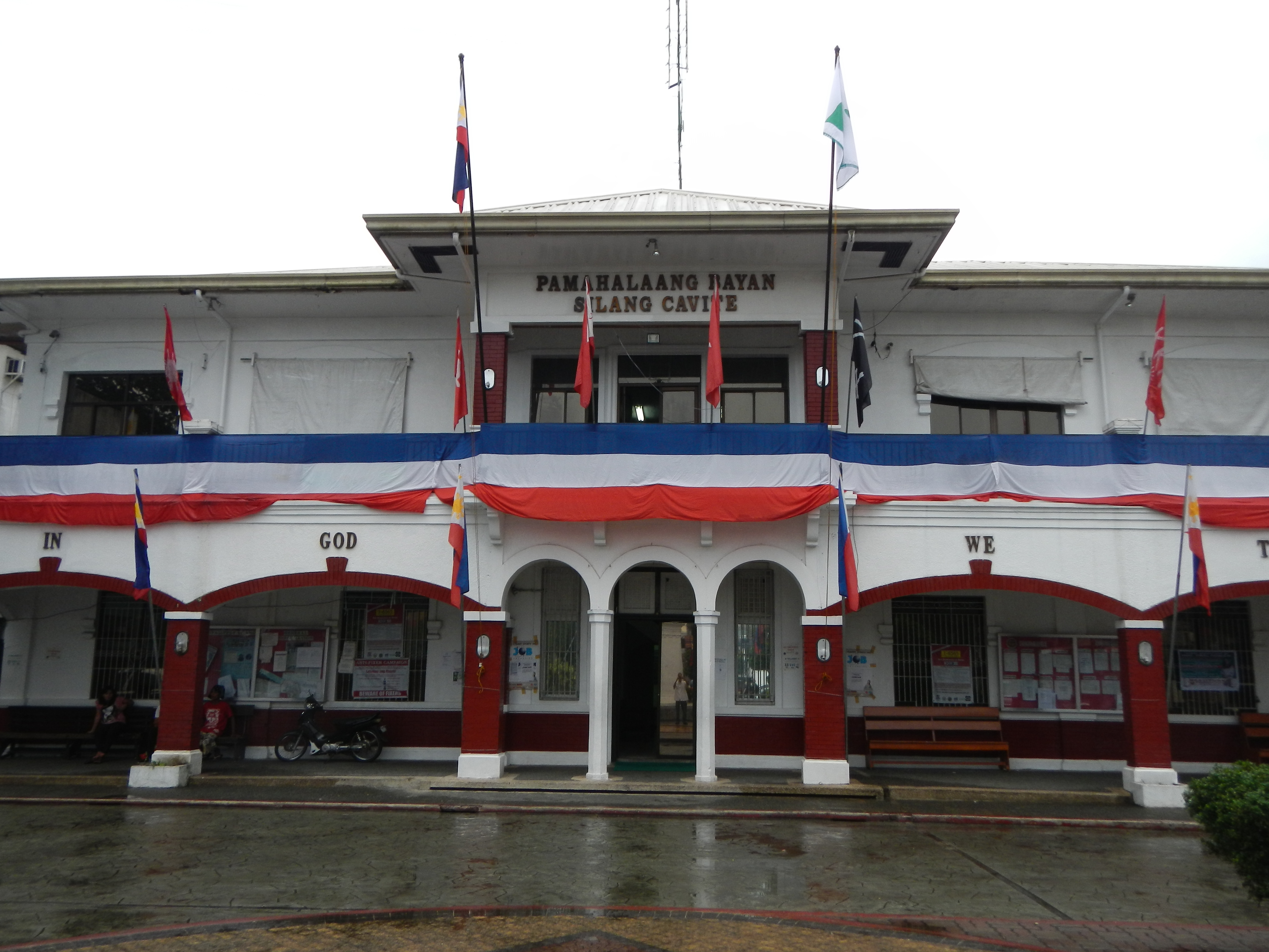 Town hall of Silang, Cavite[1] The Municipality of Silang (Filipino: Bayan ng Silang) is a first class landlocked municipality in the province of Cavite, Philippines. According to the 2010 census, it has a population of 213,490 people in an area of 209.4 square kilometers (80.8 sq mi). Silang is located in the eastern section of Cavite. This is the location of Philippine National Police Academy and PDEA Academy.